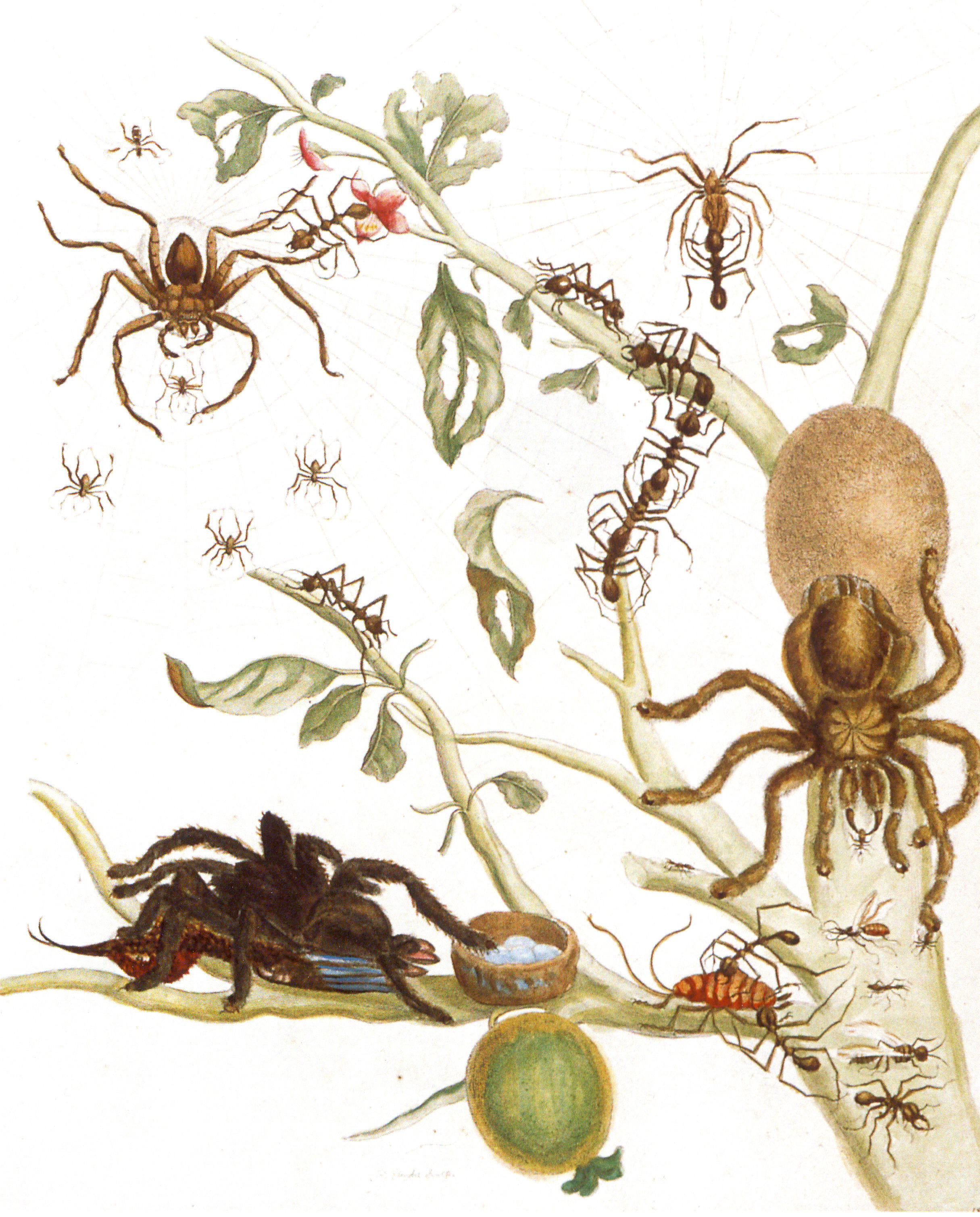 Colored copper engraving from Metamorphosis insectorum Surinamensium, Plate XLIII. "Spiders, ants and hummingbird on a branch of a guava" (Tarantula: Avicularia avicularia)